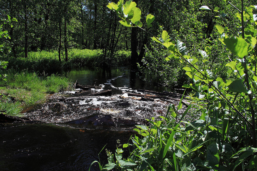 Lipsha River, Mari El